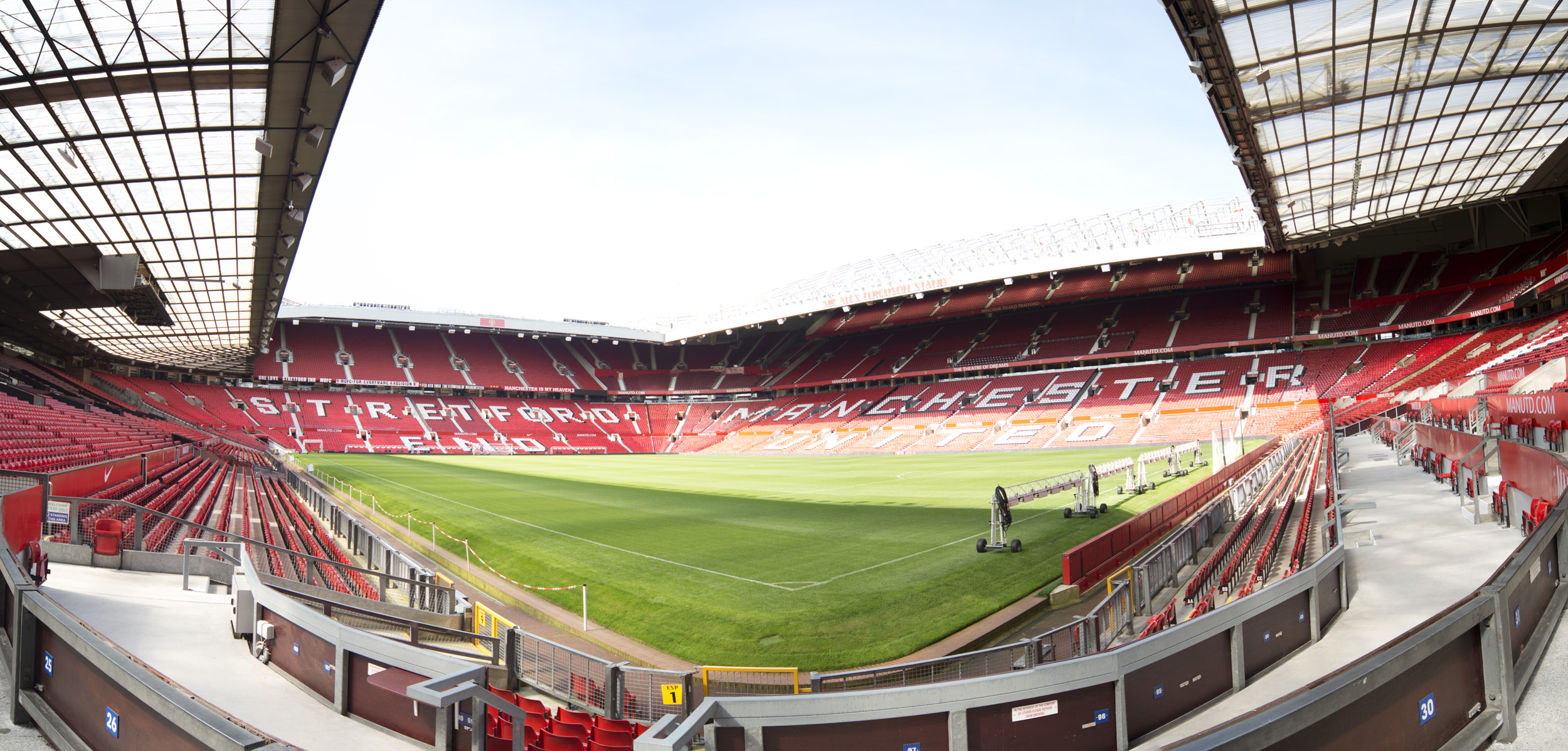 Manchester United Panorama